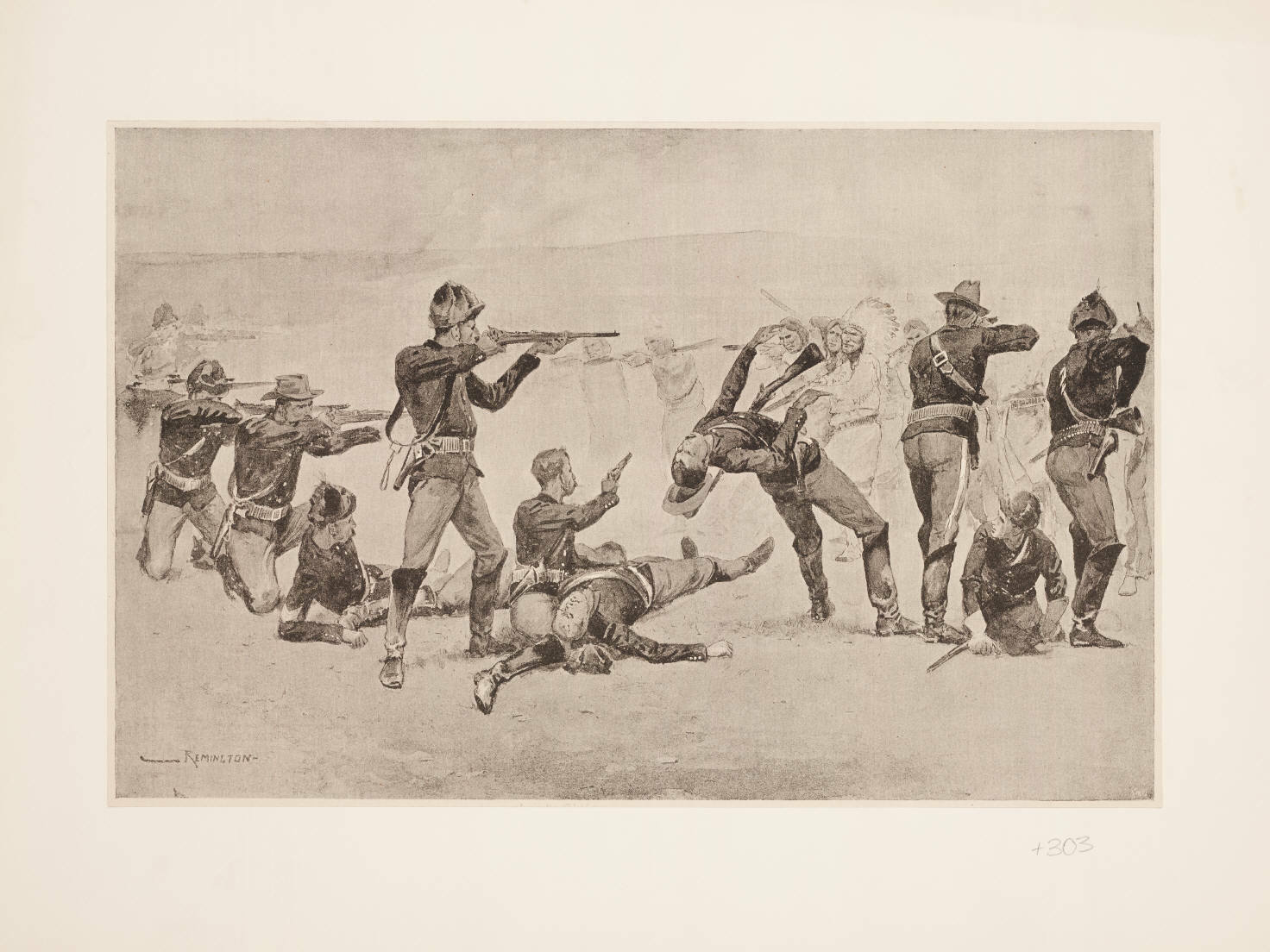 Appeared as an illustration in 'Harper's Weekly,' 1891.